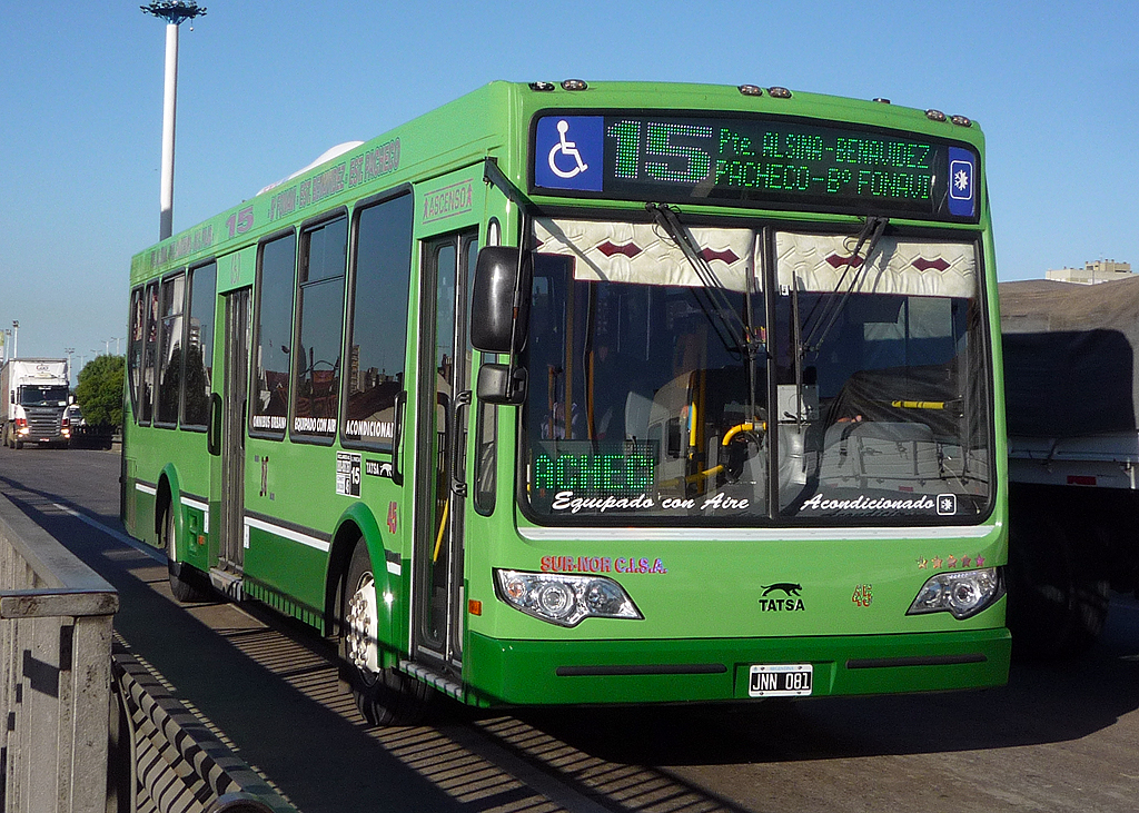 TATSA Puma D12 bus (reg. JNN 081, #45) in Buenos Aires, Argentina. Colectivo, line 15, Línea 15. Transportes Sur Nor C.I.S.A. operator.